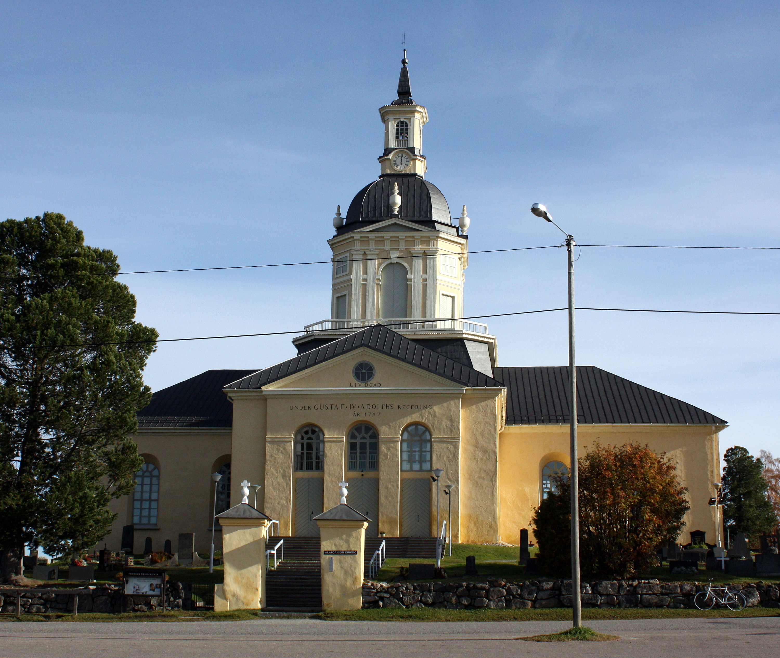 Alatornio church.